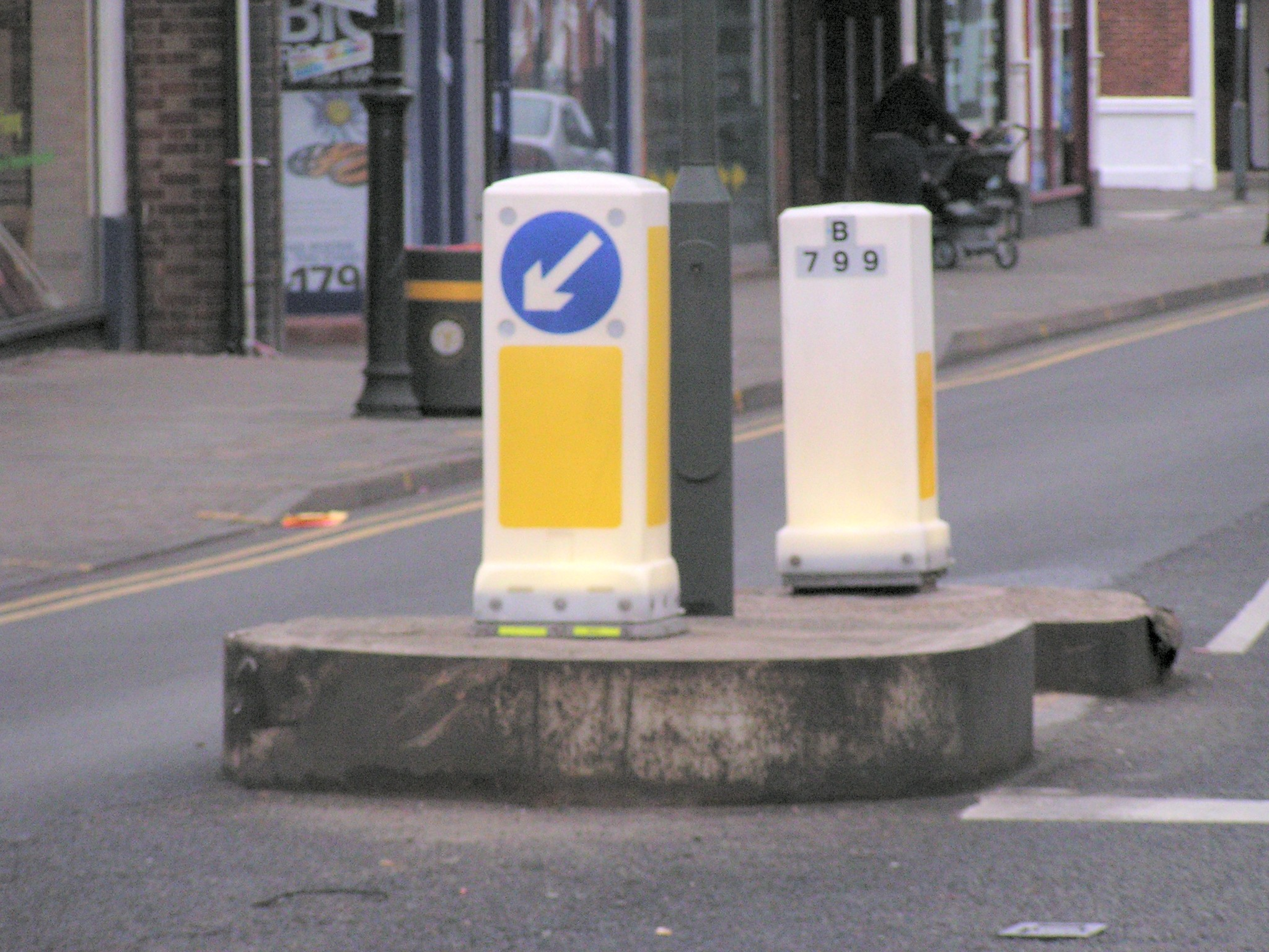 Internally illuminated bollards, Orpington High Street. Picture taken by James Gray 14th Jan 2006